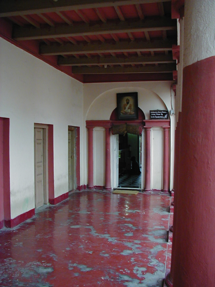 Inside the north-east verandah, looking towards Ramakrishna's room